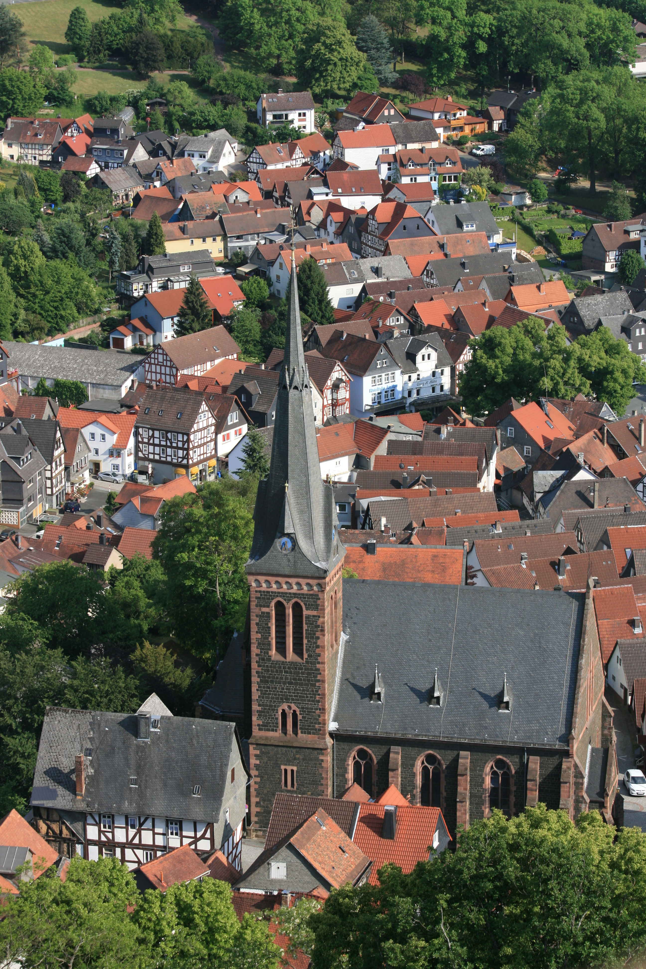 Germany, Hesse, Biedenkopf: view to Stadtkirche und Oberstadt (old town).